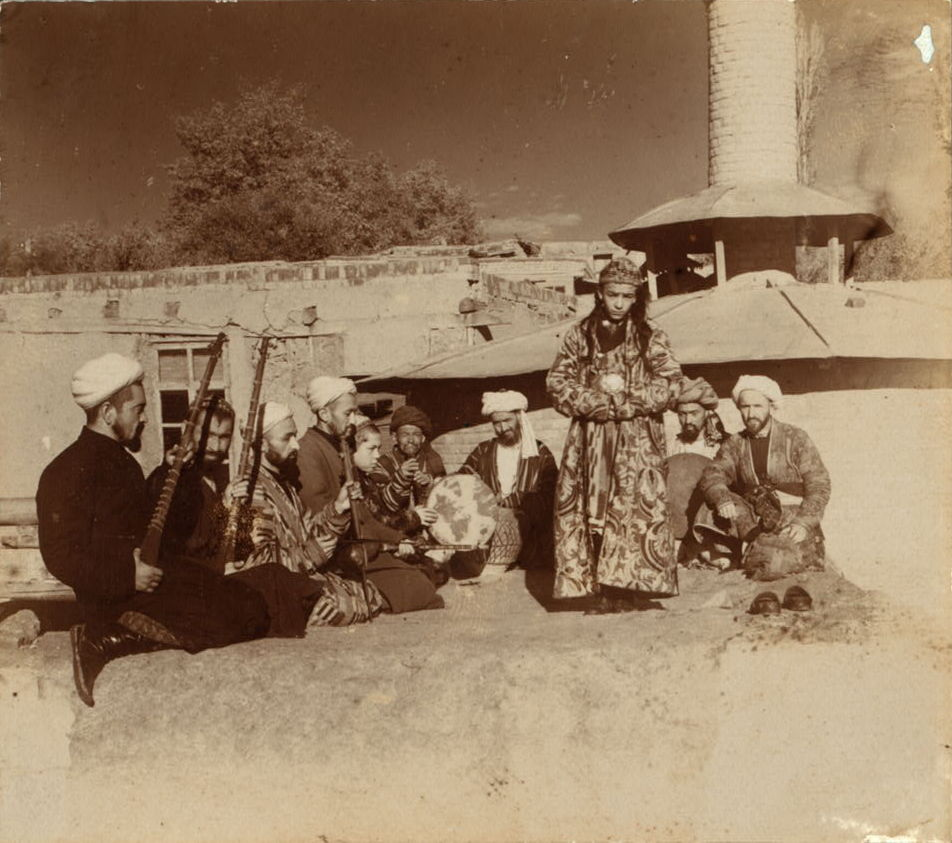 Dance of a bacha [dancing boy], Samarkand, ca 1905 - 1915